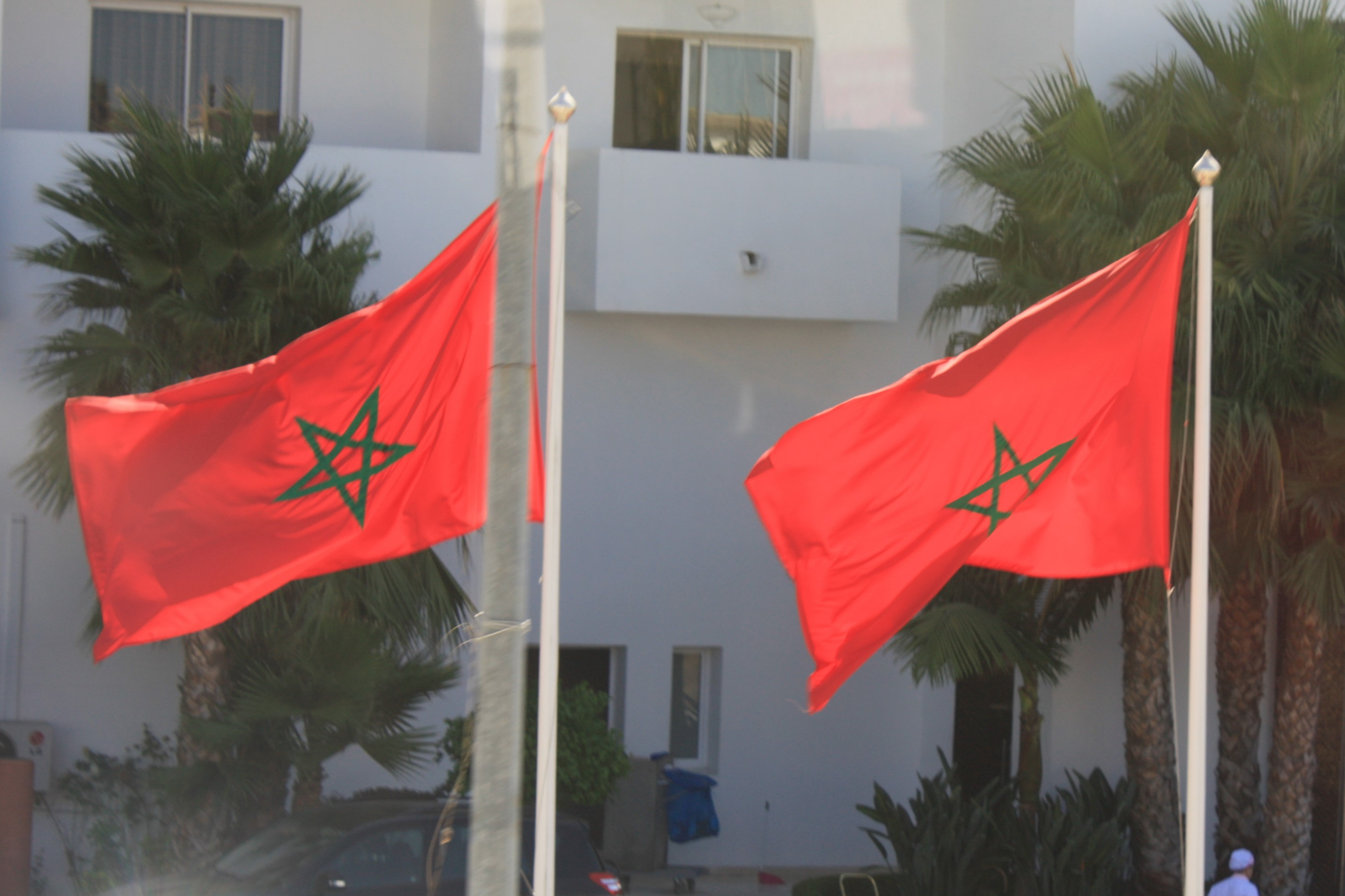 National flags of Morocco in Tanger. The left flag is upside down.